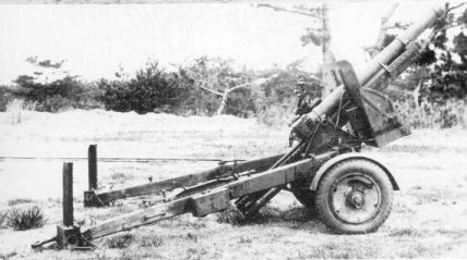 Japanese Type 91 10 cm Howitzer